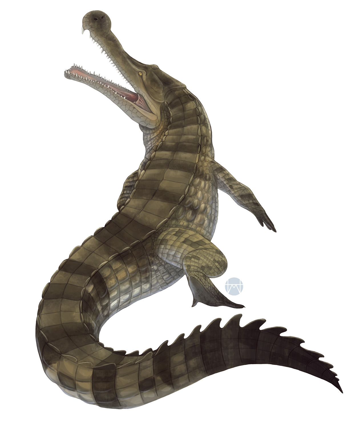 Sarcosuchus imperator illustration by Madison Henline (rhunevild).